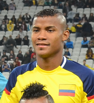 São Paulo - Colômbia vence a Nigéria por 2x0 na Arena Corinthians (Rovena Rosa/Agência Brasil)